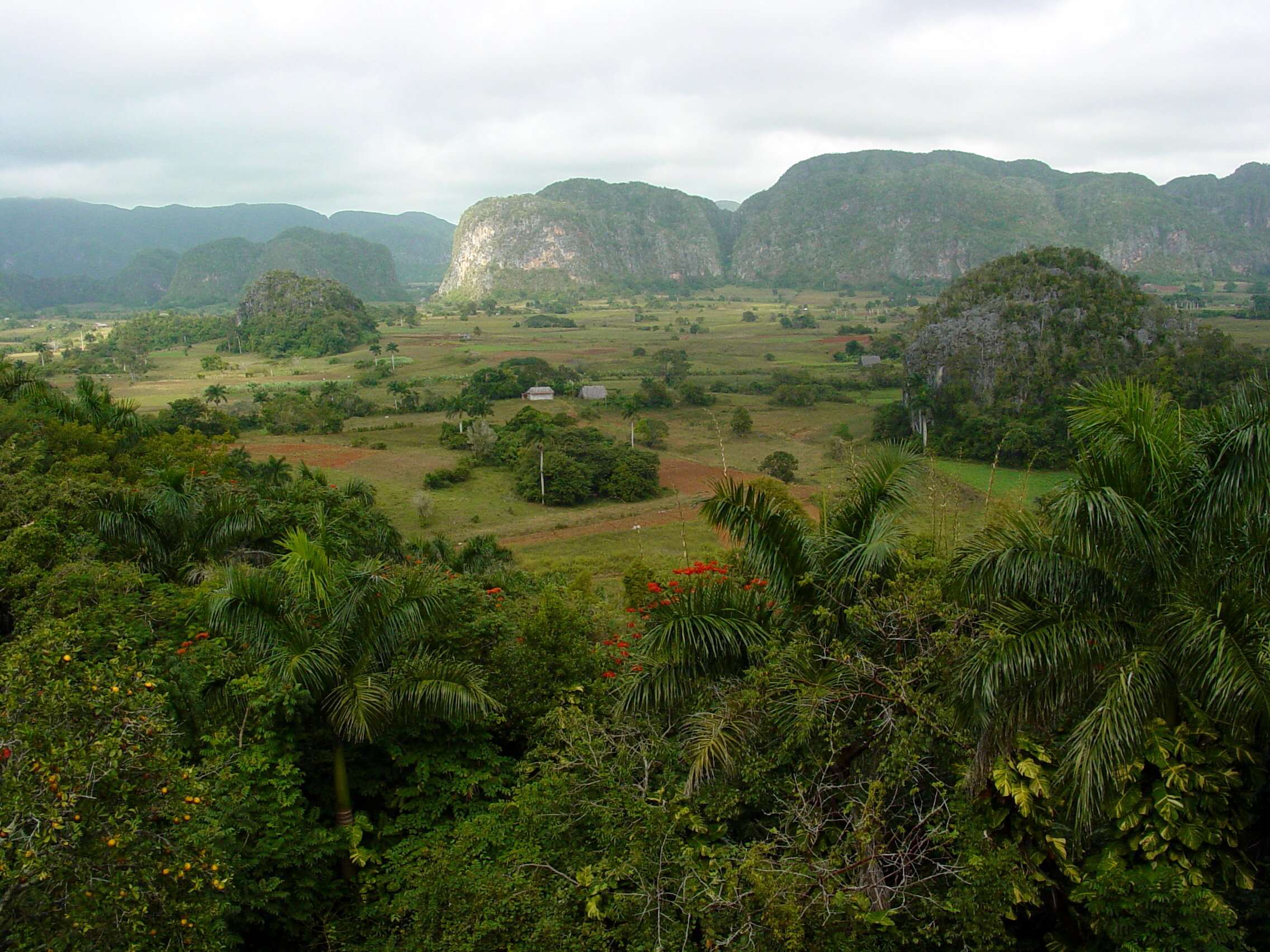 Landscape of Viñales Valley, Pinar del Rio province, Cuba. December 2006.